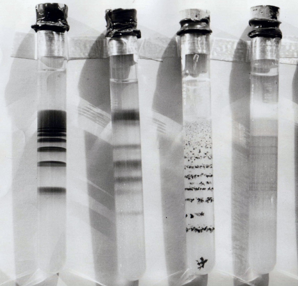 This is a picture I (Donald B. Siano) took about 20 years ago of a series of experiments on Liesgang Rings.